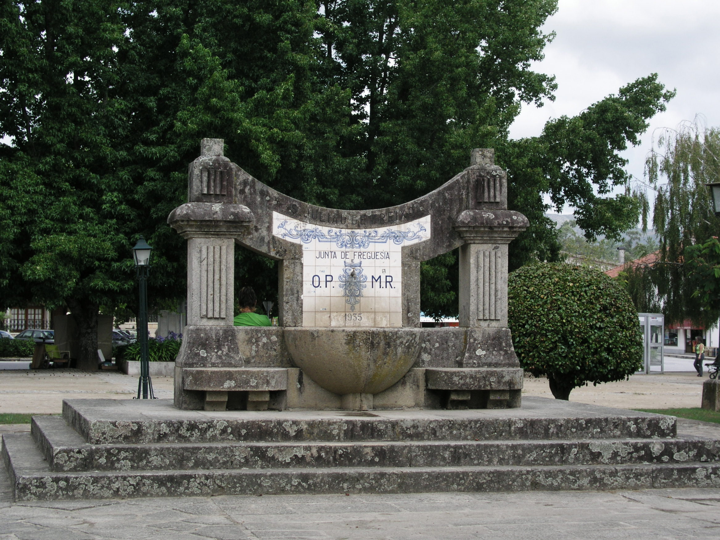 Freixo, Ponte de Lima, Portugal. Water fountain